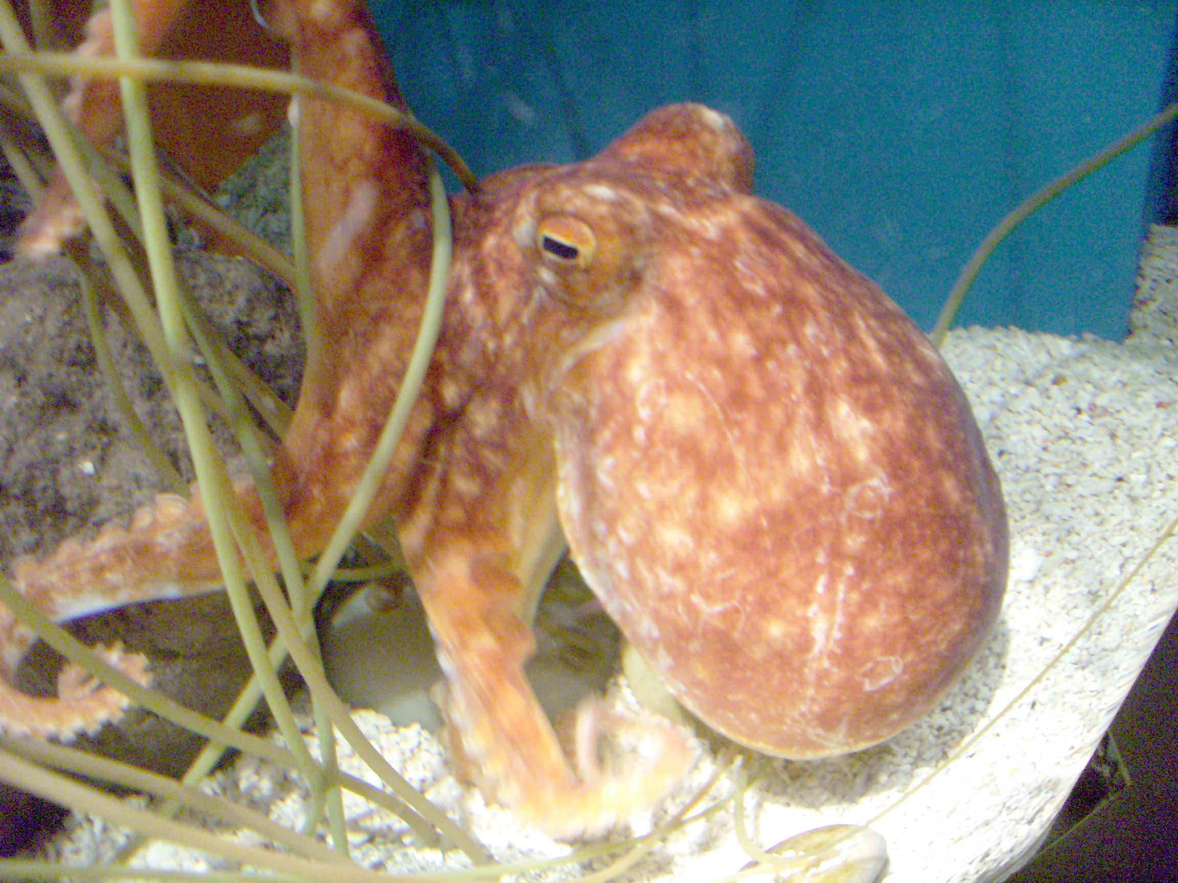 Unidentified Octopus at the Sea Life Helsinki oceanarium